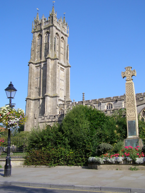 War memorial, Glastonbury High Street. Looking across the High Street with the distinctive war memorial on the right, with St John's church beyond (in the next grid square). The floral displays show how seriously the town takes the Britain in Bloom idea.